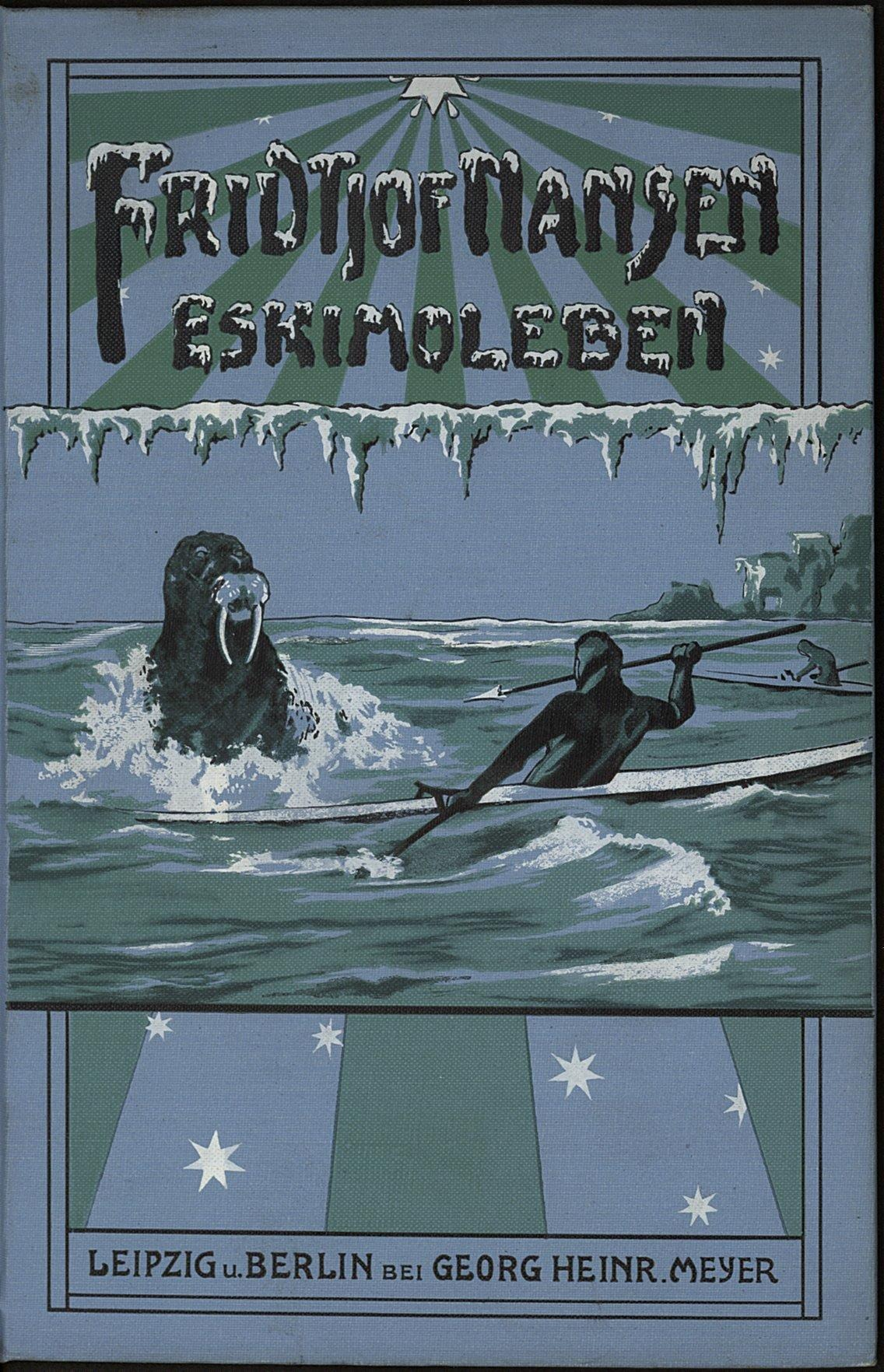 Book front cover of the 1903 German edition of Fridtjof Nansen's "Eskimo Life". Anonmyous book cover art is a product of the publishing company; copyright expires 70 years after publication.